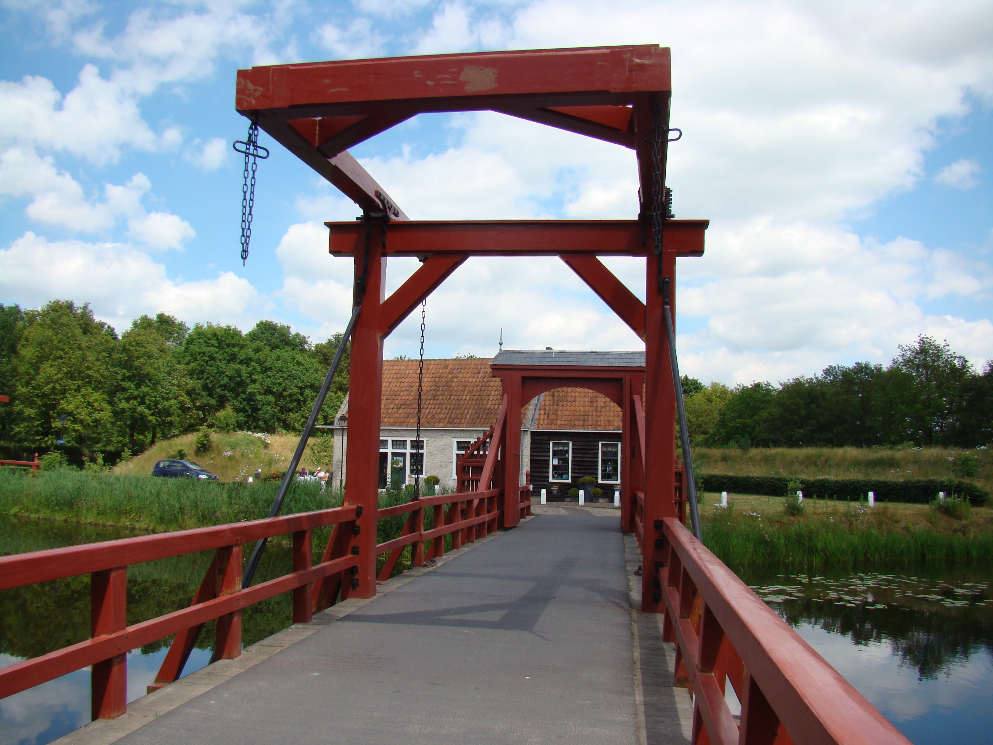 Impressions of Bourtange, Netherlands ophaalbrug